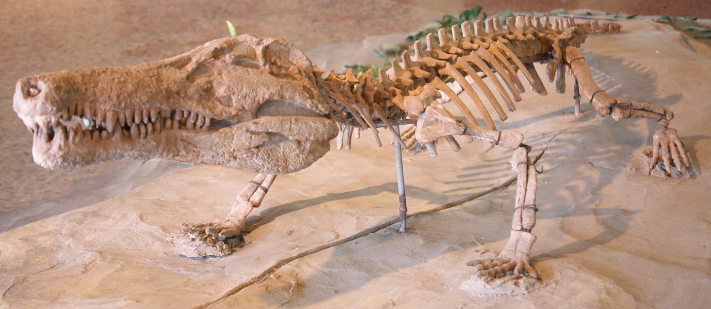 Hsisosuchus twojiangensis. Dinosaurmuseet i Zigong. -- The dinosaur museum in Zigong.